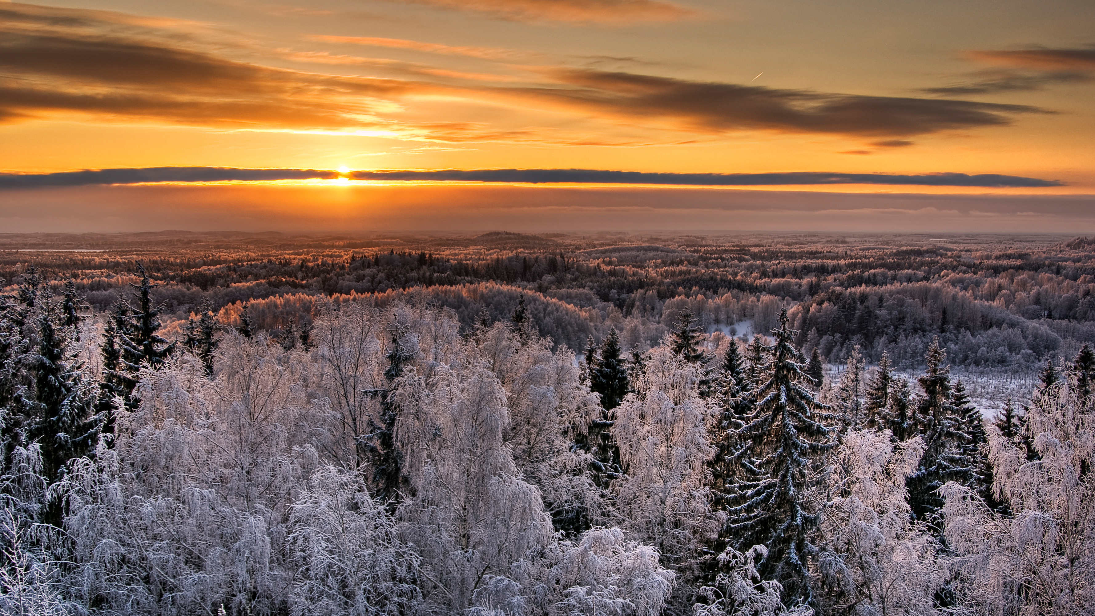 Karula National Park, view from Rebasemõisa tower.